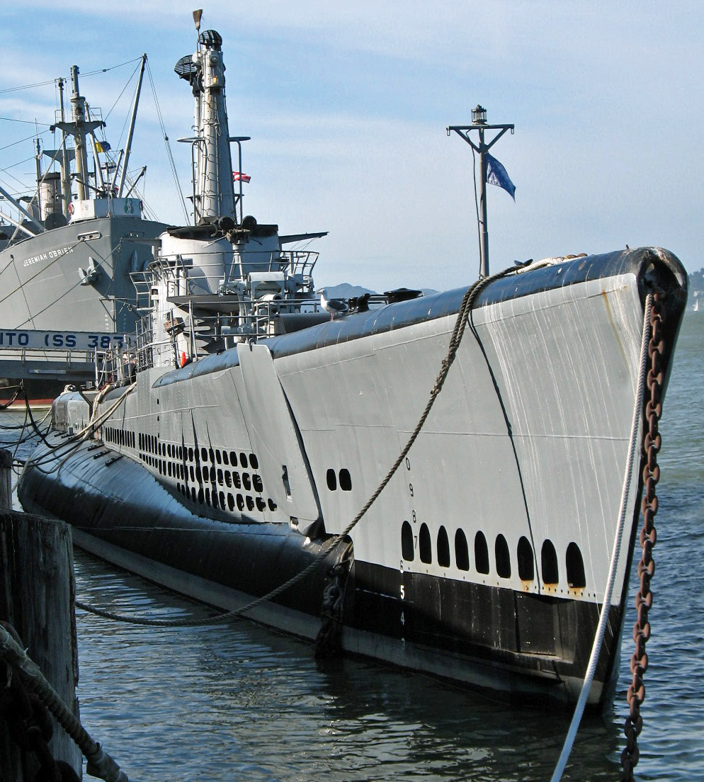 National Register of Historic Places in San Francisco, California. USS "Pampanito", World War II "Balao" class submarine, Pier 45, San Francisco, California, USA. Photographed 2008-03-08 by Mike Hofmann from Pier 45 walkway.